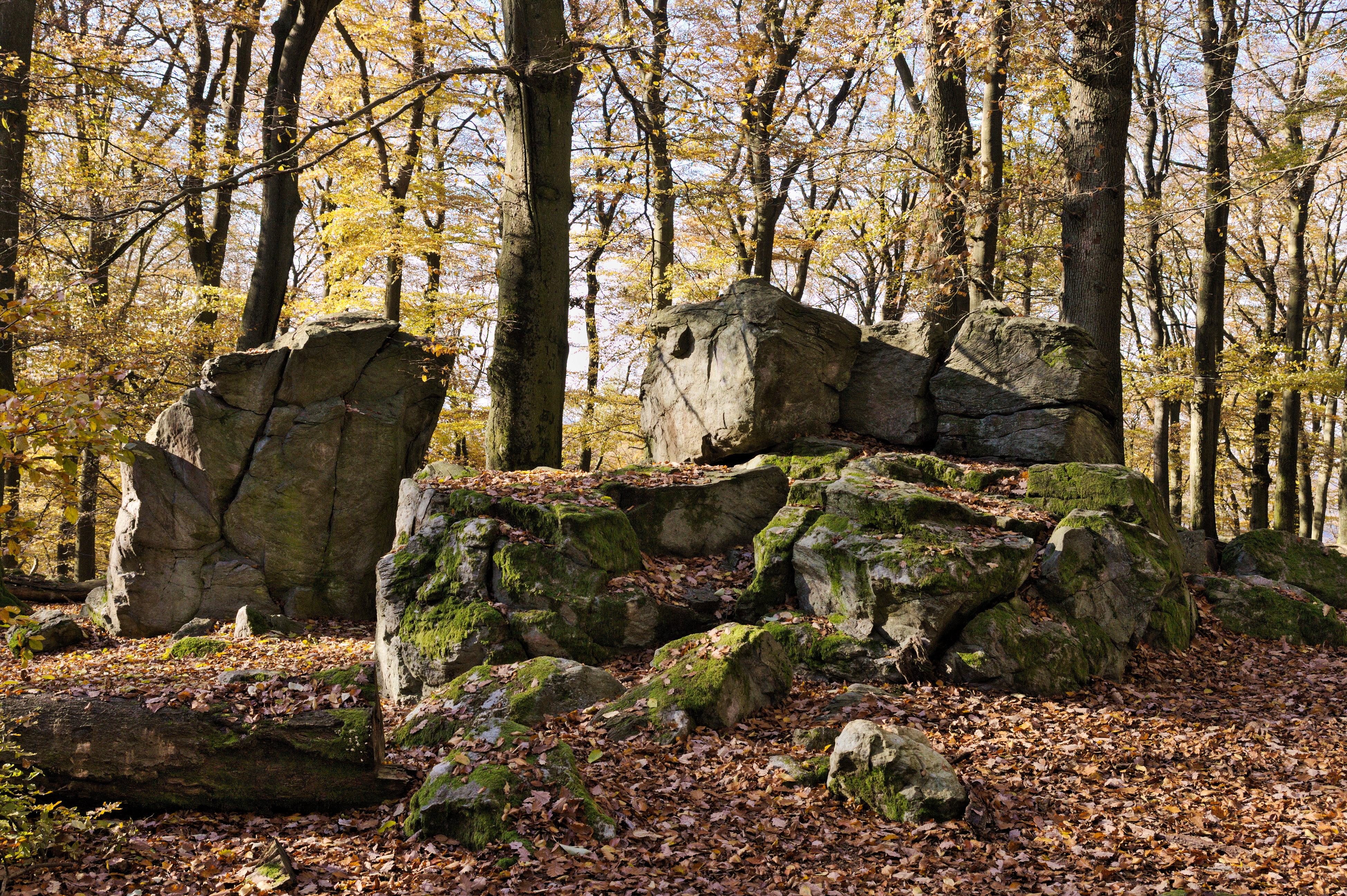 Malberg mountain top with rocks and beeches. Part of a nature reserve in Westerwaldkreis, Germany